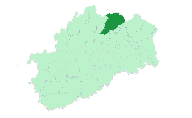 Canton of Saint-Loup-sur-Semouse